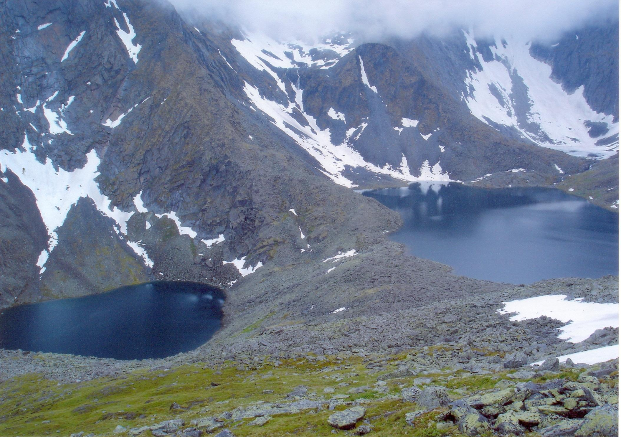 Mountain lakes and clouds over snowy peaks near the village Saranpaul, Khanty-Mansi Autonomous Okrug (Russia).